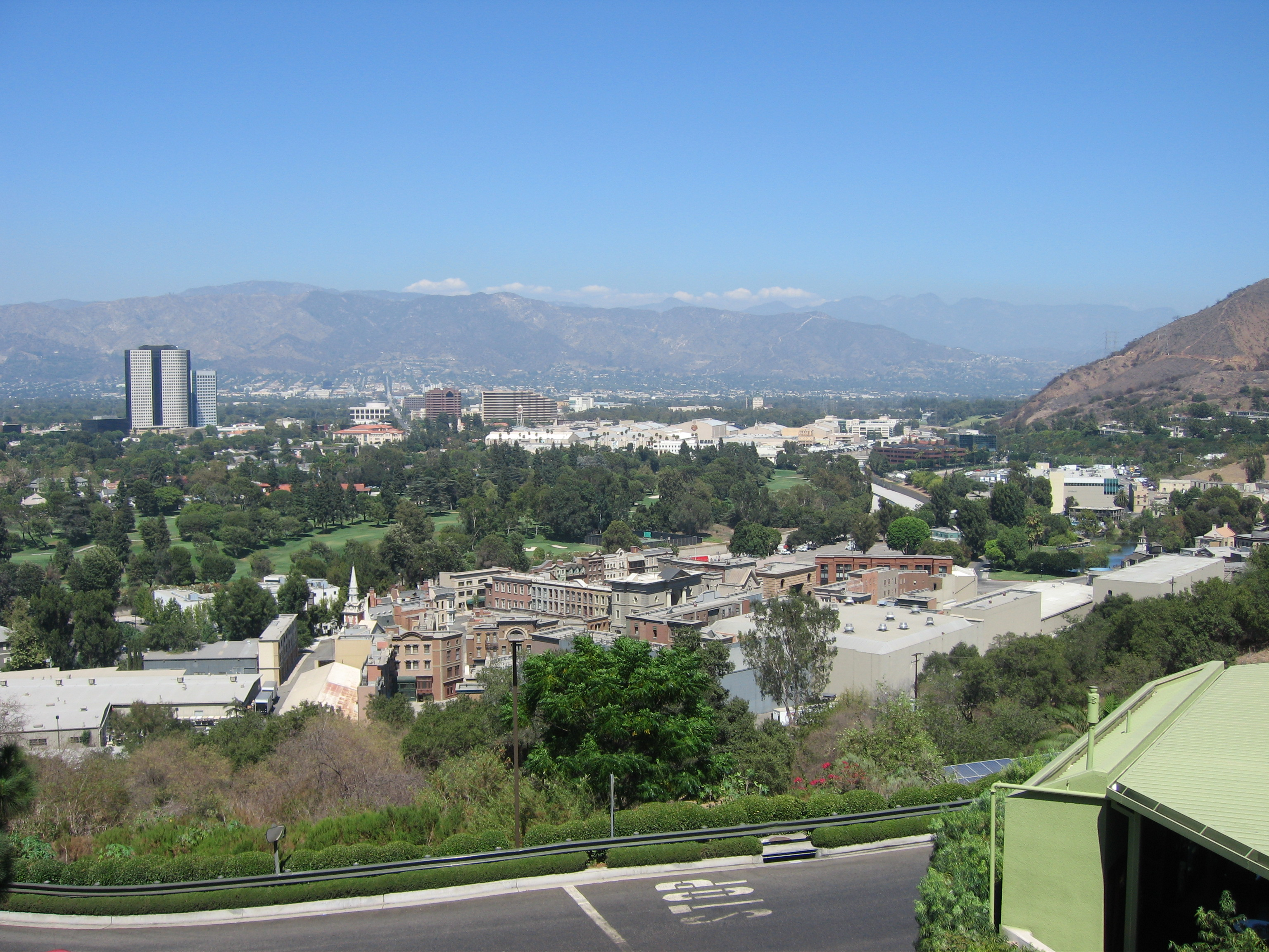 The studio backlot at Universal Studios Hollywood — with the eastern San Fernando Valley, Burbank, Verdugo Mountains, and snow capped San Gabriel Mountains in the backround.